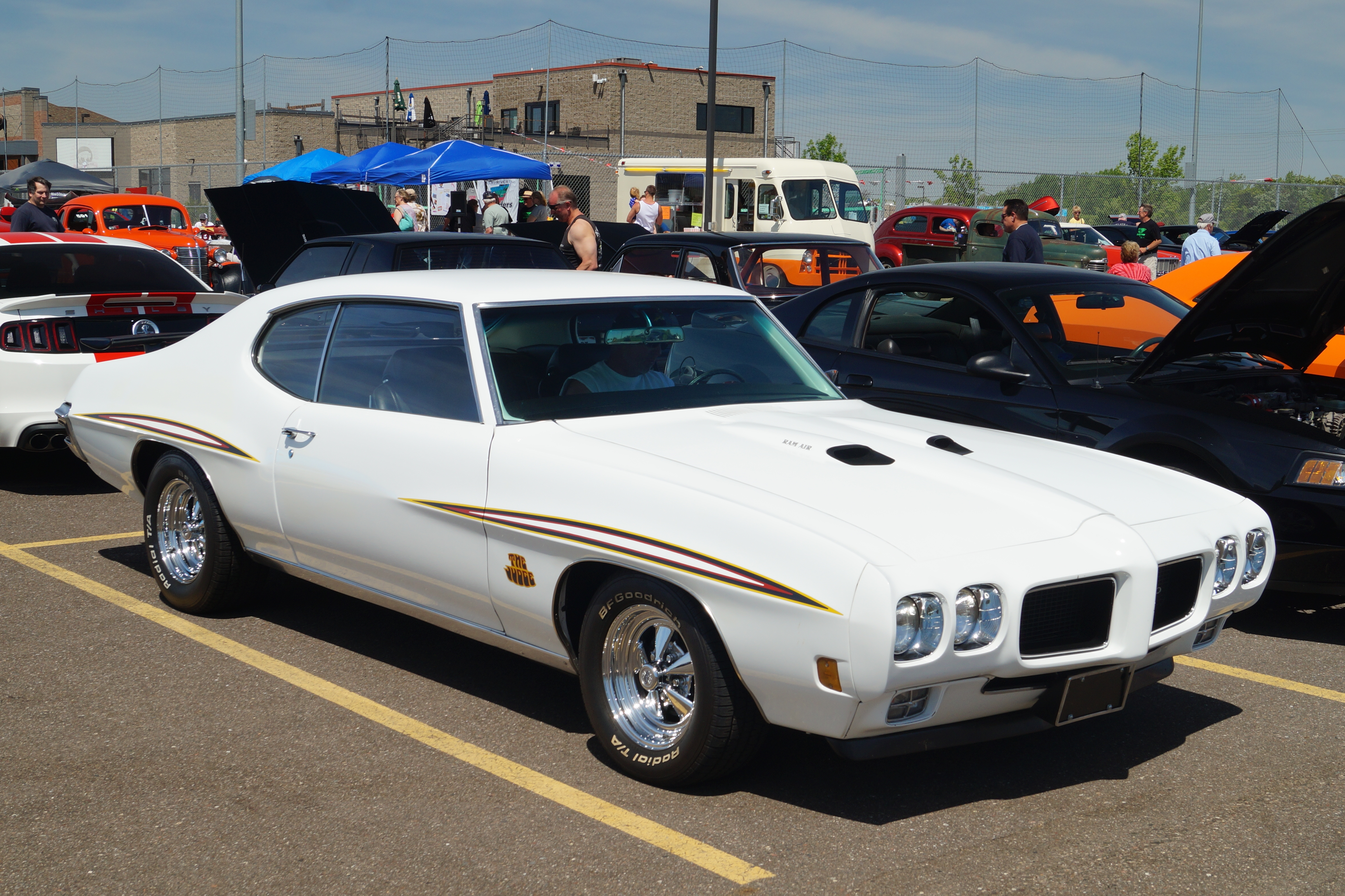 Click here for more car pictures at my Flickr site. Tri-River Rodders The Friendly Buffalo Big Lake, Minnesota